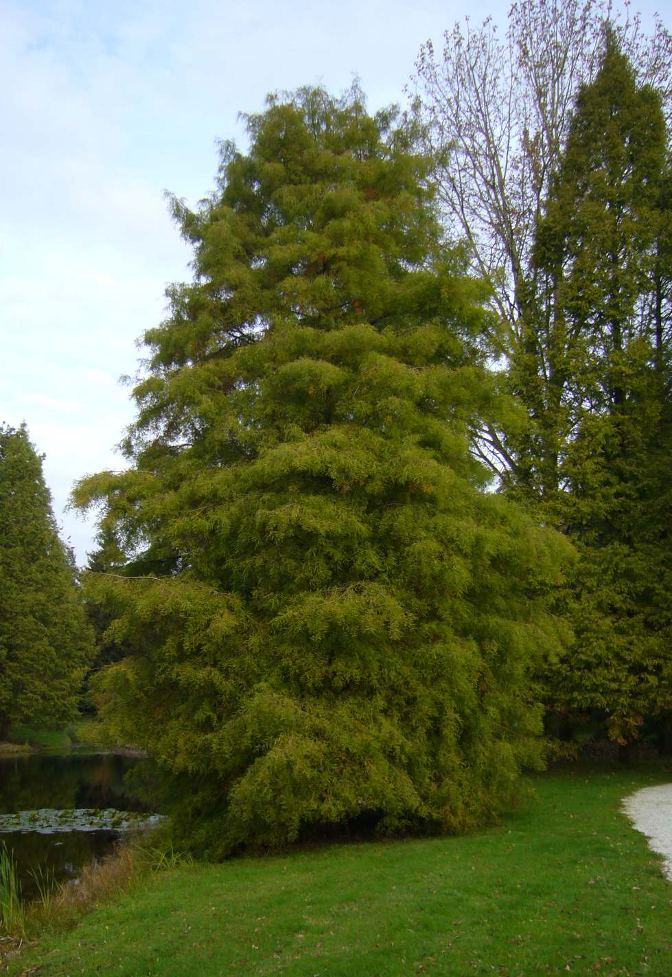 Taxodium distichum (Bald Cypress) at Gimborn Arboretum, Doorn (Netherlands). Right of the Taxodium is a Metasequoia glyptostroboides (Dawn Redwood). The Metasequoia is clearly of a more pointed pyramidal form than the Taxodium; picture taken by Wilma Verburg, 2008/10/18